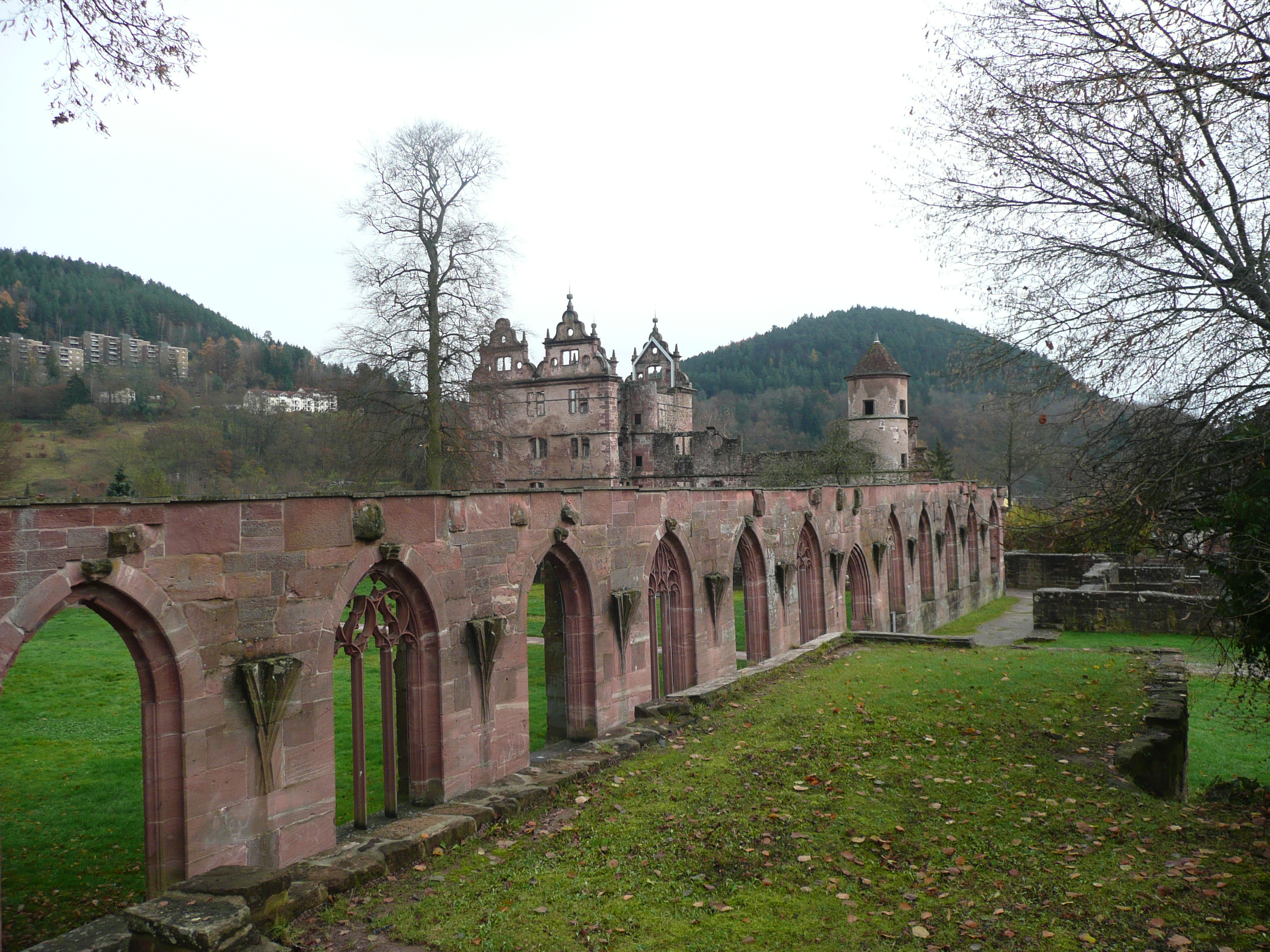 A view on the cloister at the abbey Hirsau